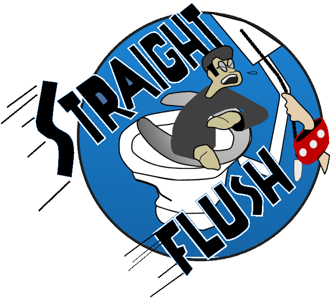 Drawing I made of Straight Flush nose art.